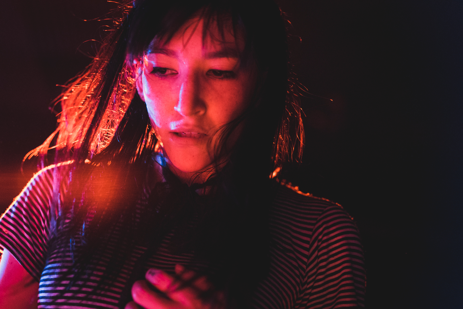 Queen Kwong at the Lexington